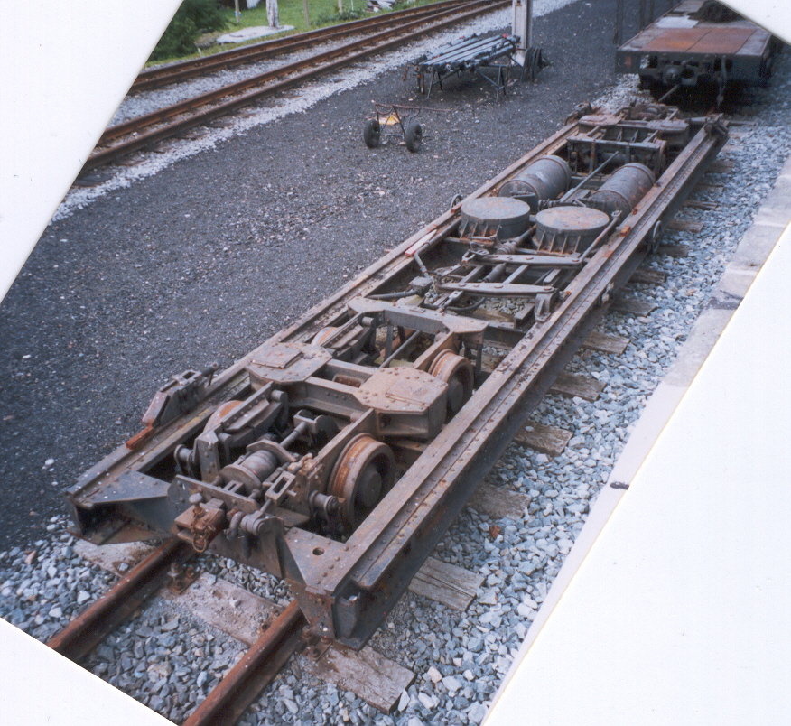 Transporter wagon